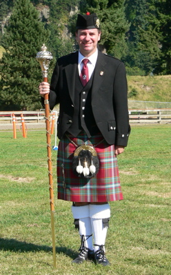 Pipe band drum major as seen at the 2005 Pacific Northwest Highland Games. He is wearing a Glengarry cap and an Argyll coat.